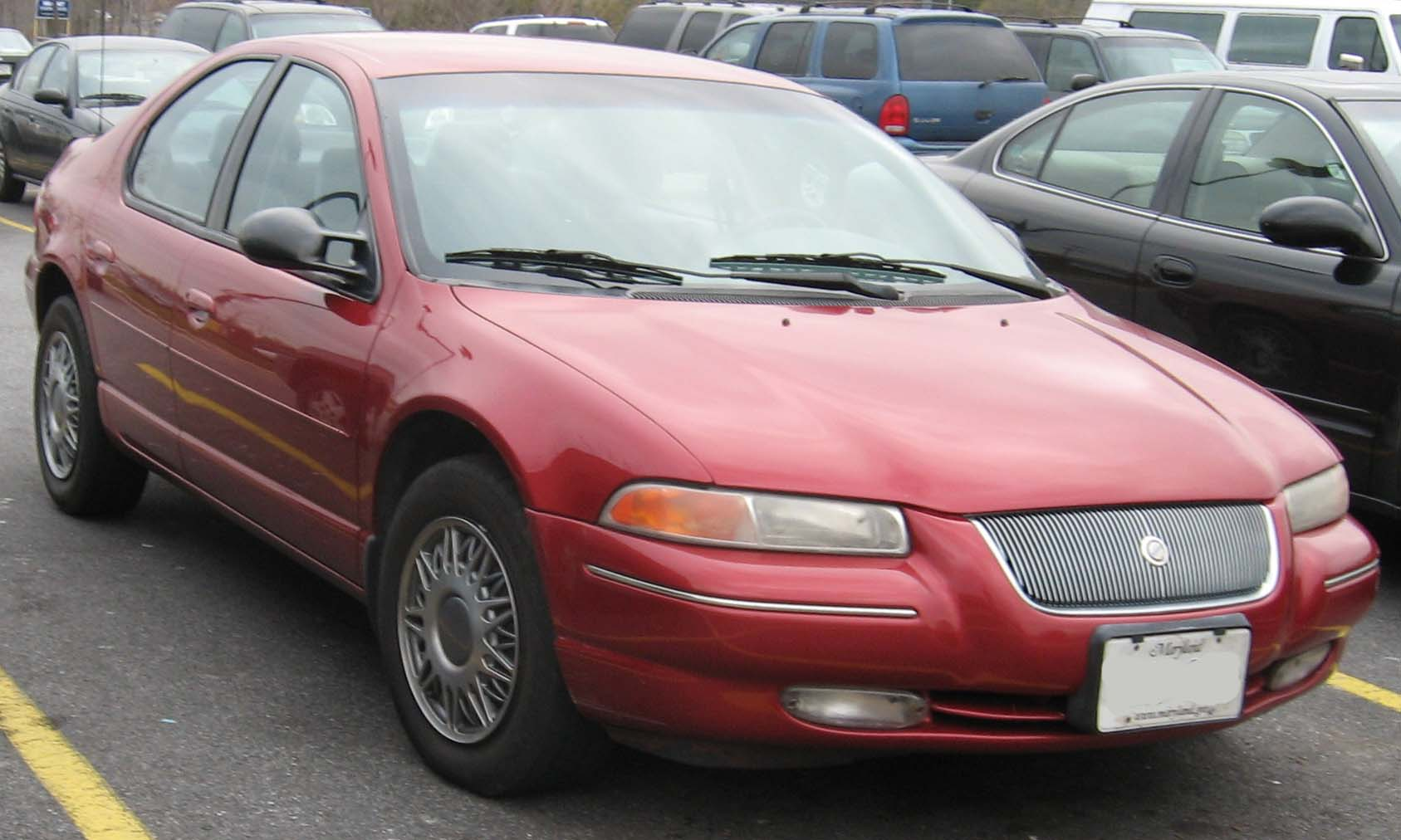 1995-1998 Chrysler Cirrus photographed in USA.